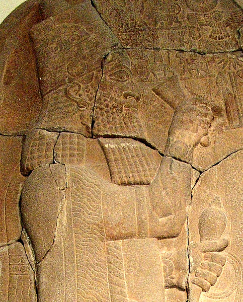 Esarhaddon, king of Assyria. Portrait on stone stele. After 671 BC. Pergamonmuseum, Berlin